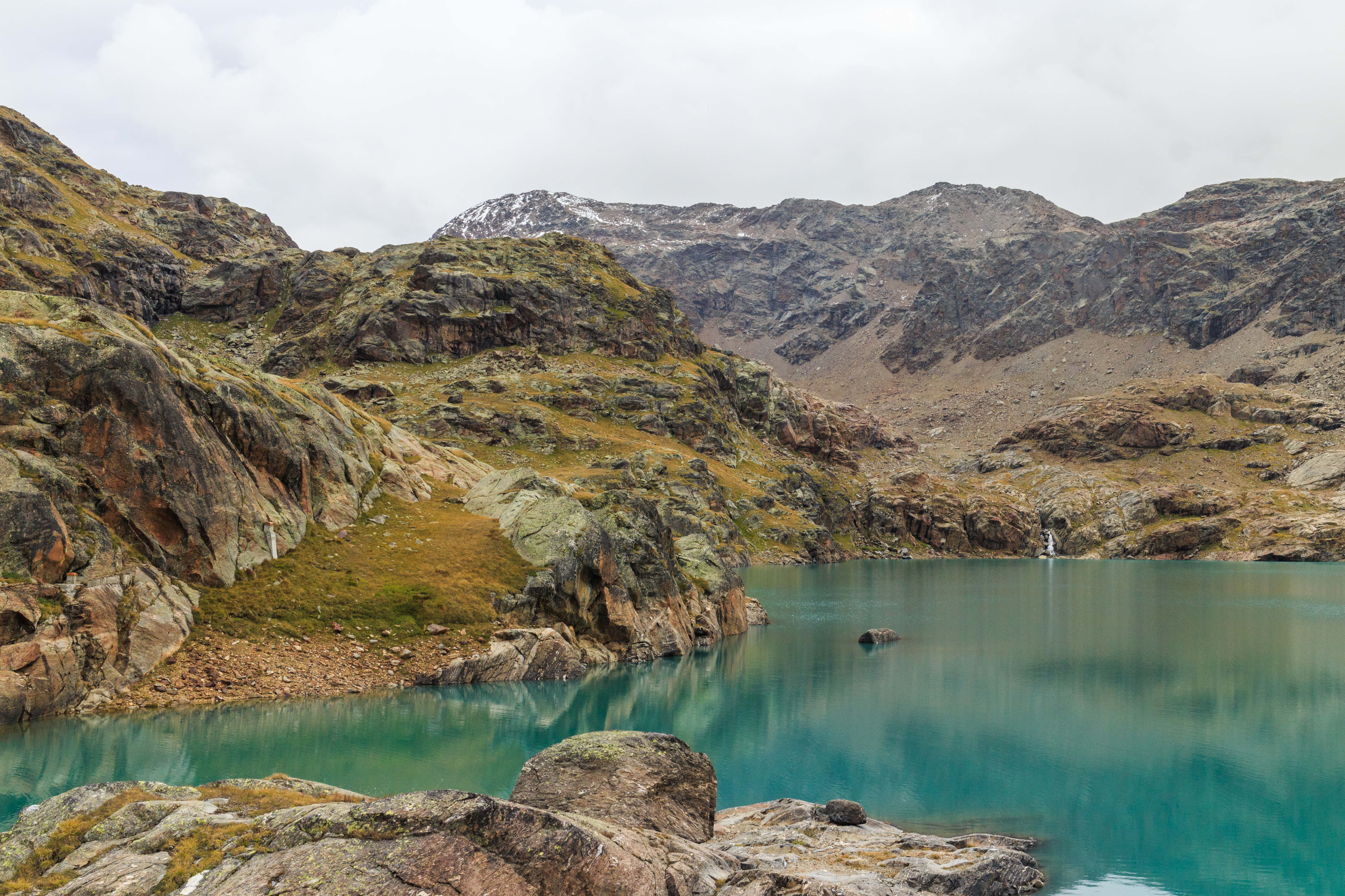 Rock formations above the lake. Mountain hiking of parking in power station Malga Mare to Lago del Careser.